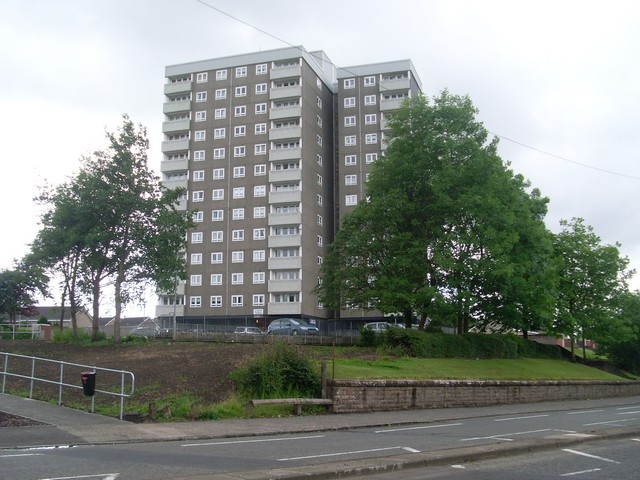 Logan Court Highrise flats in Flemington.